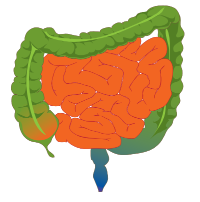 Intestine, adapted for use in Häggström diagrams